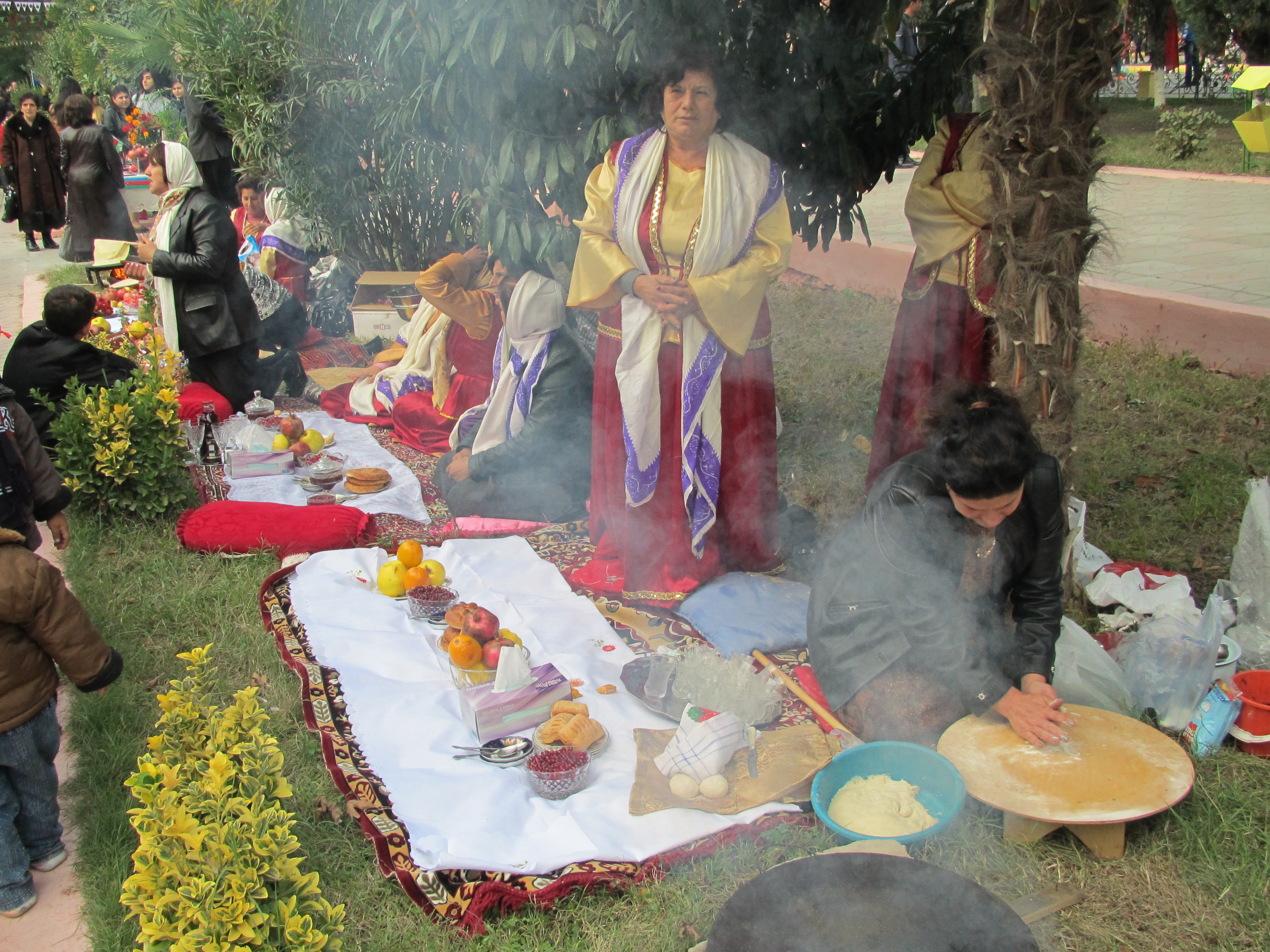 Pomegranate Festival is an annual cultural festival that is held in Goychay, Azerbaijan. Women are making lavash bread.